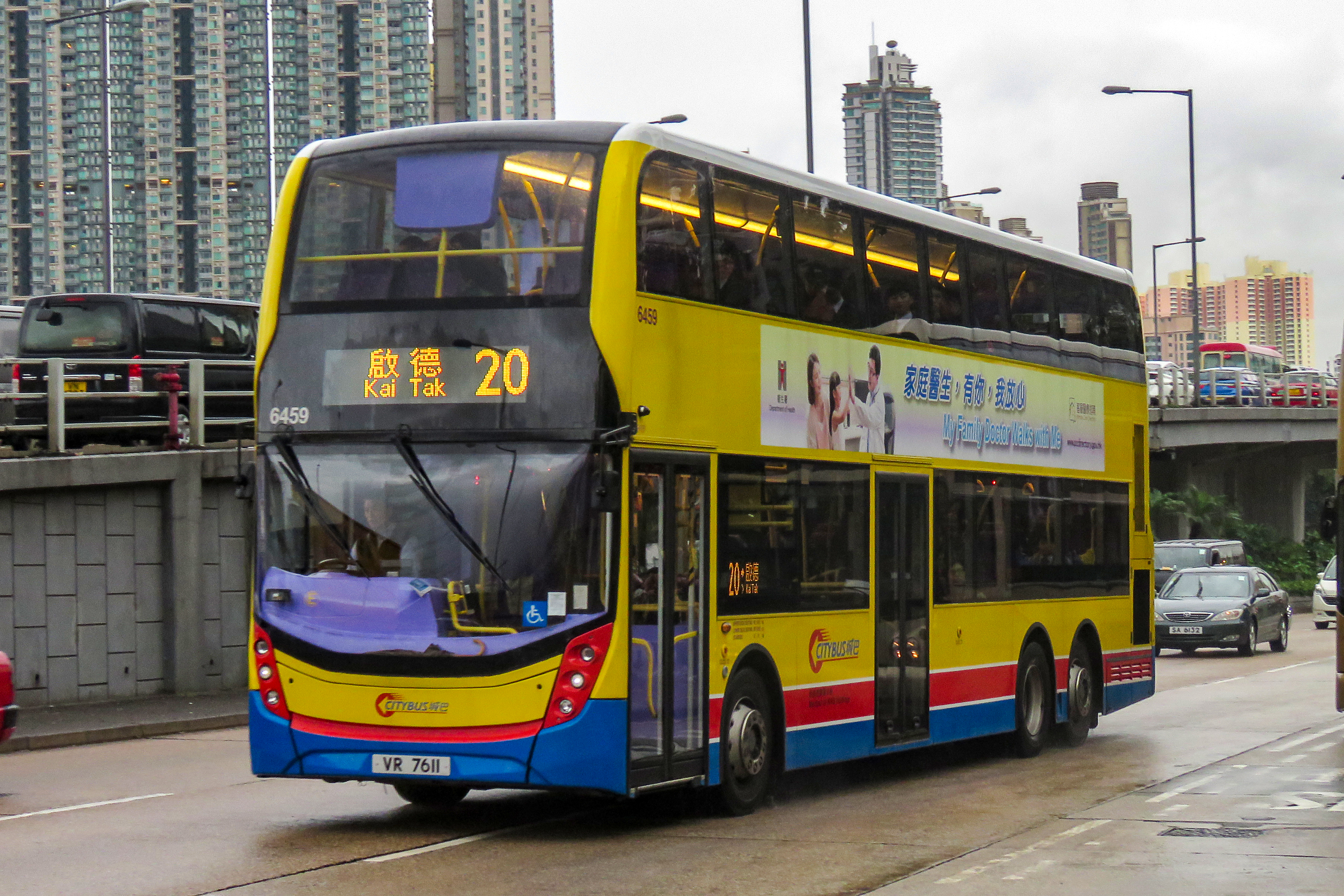 Seen passing the former Regal Airport Hotel in Kai Tak era.